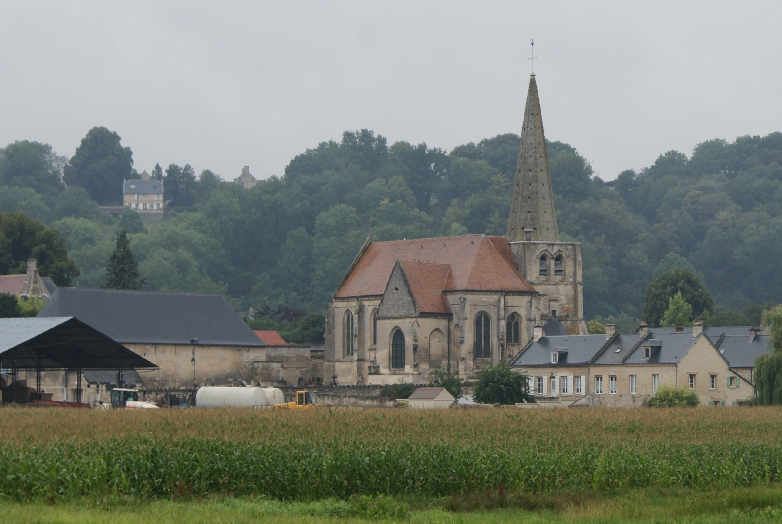 The renaissance church of the village of Bitry (Oise)